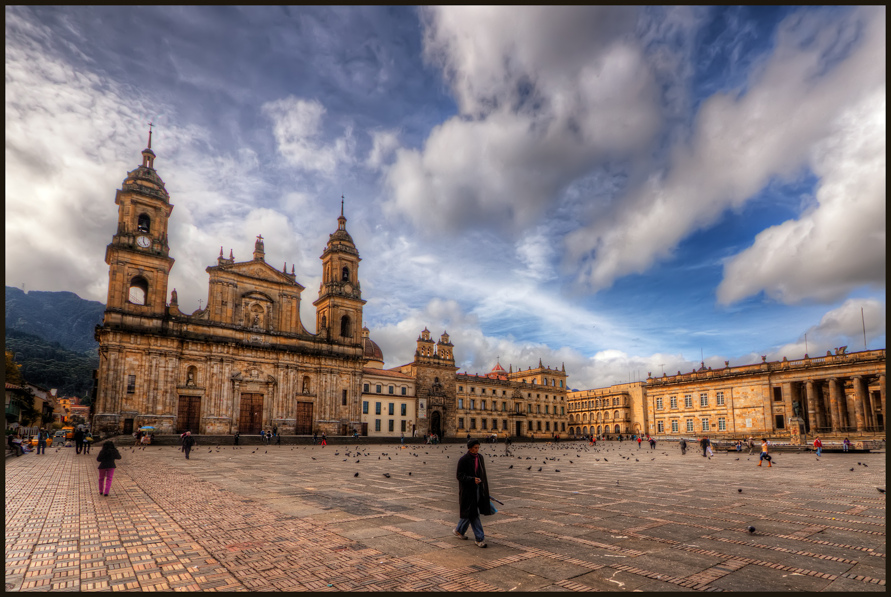 The Plaza de Bolivar is the main square in Bogota, Colombia. I was fortunate to stay close by so I headed out to the plaza in the morning, in the early sun. The church is the main cathedral, Catedral Primada, and the buildng on the right the Congress building. ISO 100, 10mm, f9 (1/400, /1600, 1/400, 1/100) handheld. HDR processed in Photomatix Details Enhancer. Imagenomics Noiseware. The warm look is the result of the Nik Skylight Filter and Indian Summer filters. Sharpened with Smart Sharpen and Freaky Details. Oh, congratulations to Barca, what a game! I was eating during the game and cut myself. Rooney scored while I went wash and get a bandaid. I made sure to not leave the TV the rest of the game!